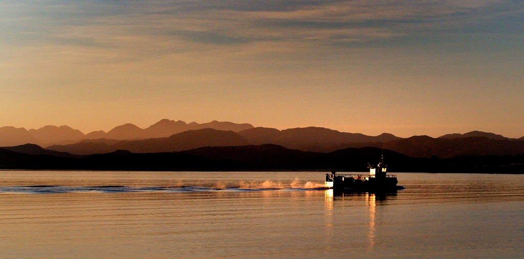 Ferry on Loch Ewe